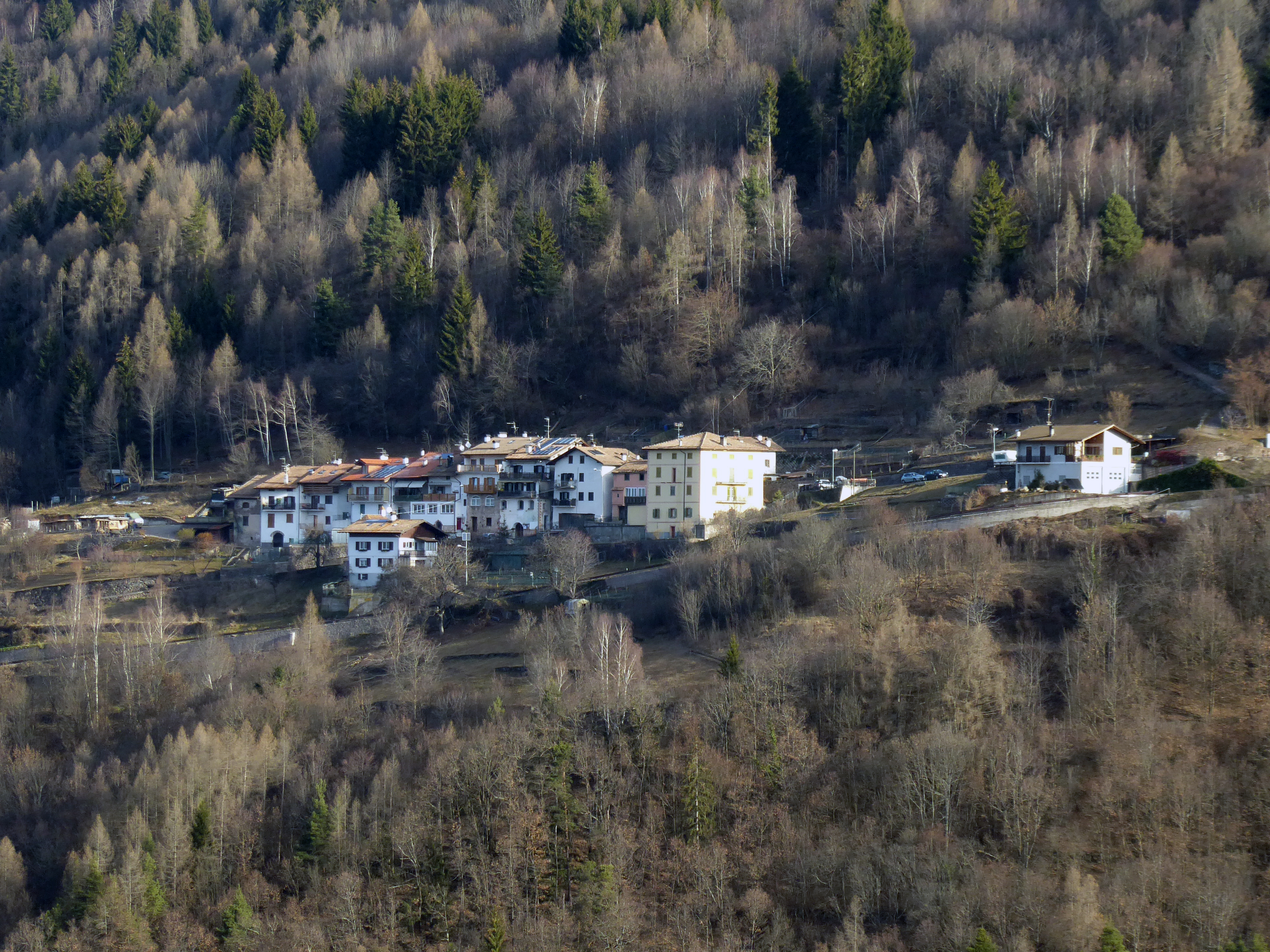 Facendi (Sover) as seen from Valcava (Segonzano)